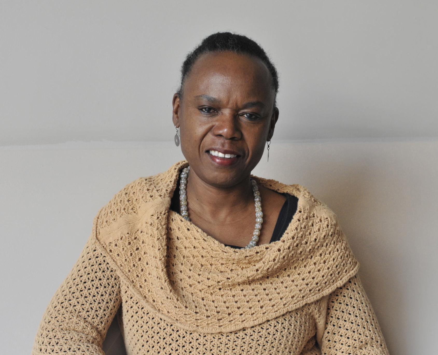 Photo of Peggy Pettitt in 2013